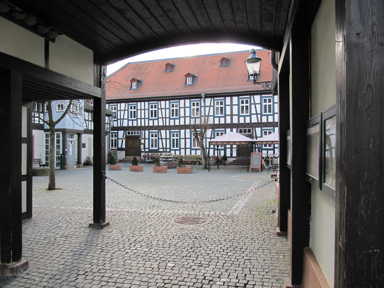 Hammermühle in Ober-Ramstadt, Darmstadt-Dieburg County, Hesse, Germany